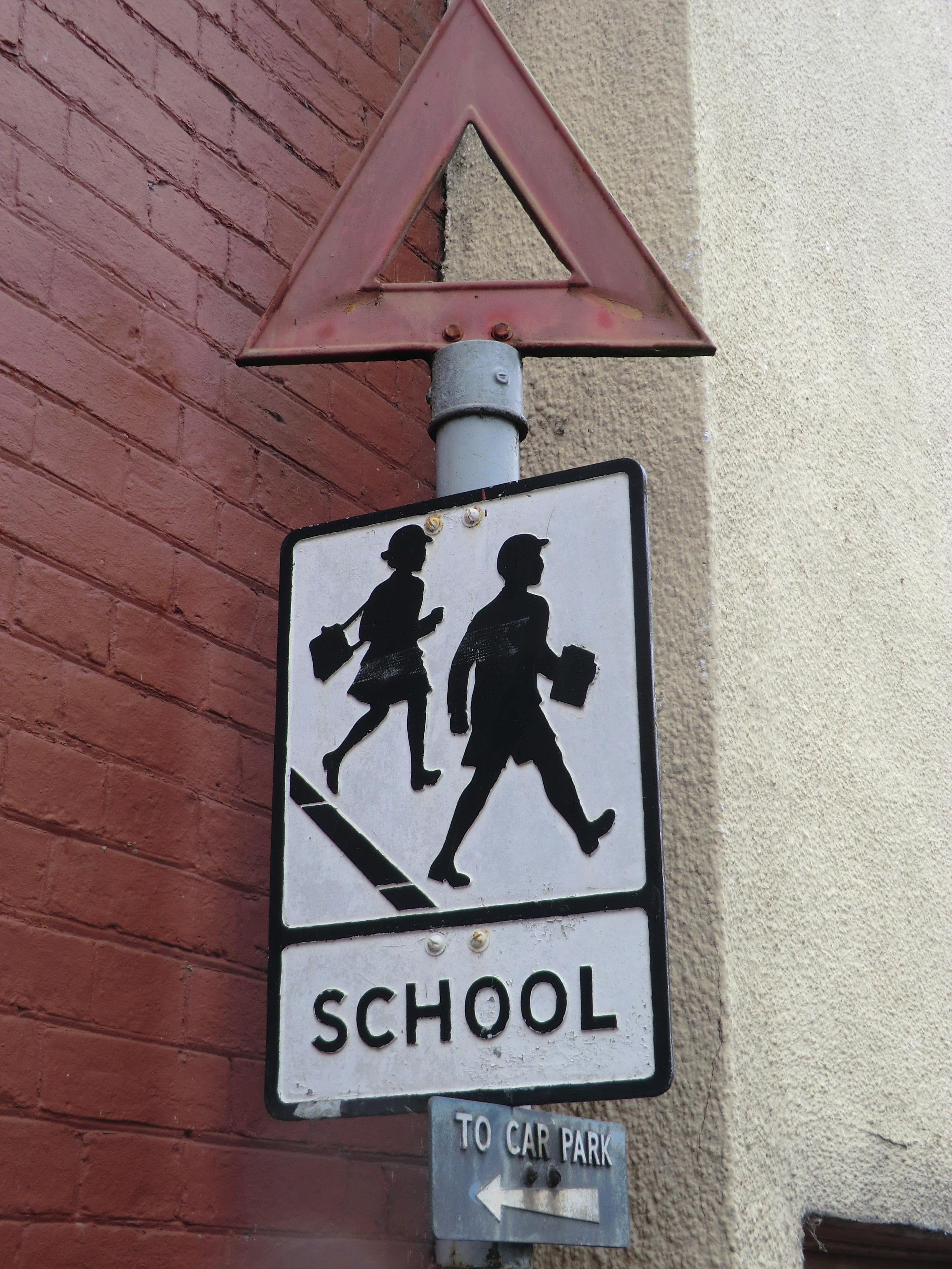 Old-style traffic signing warning of a school ahead, still in existence in Glastonbury, Somerset, UK.